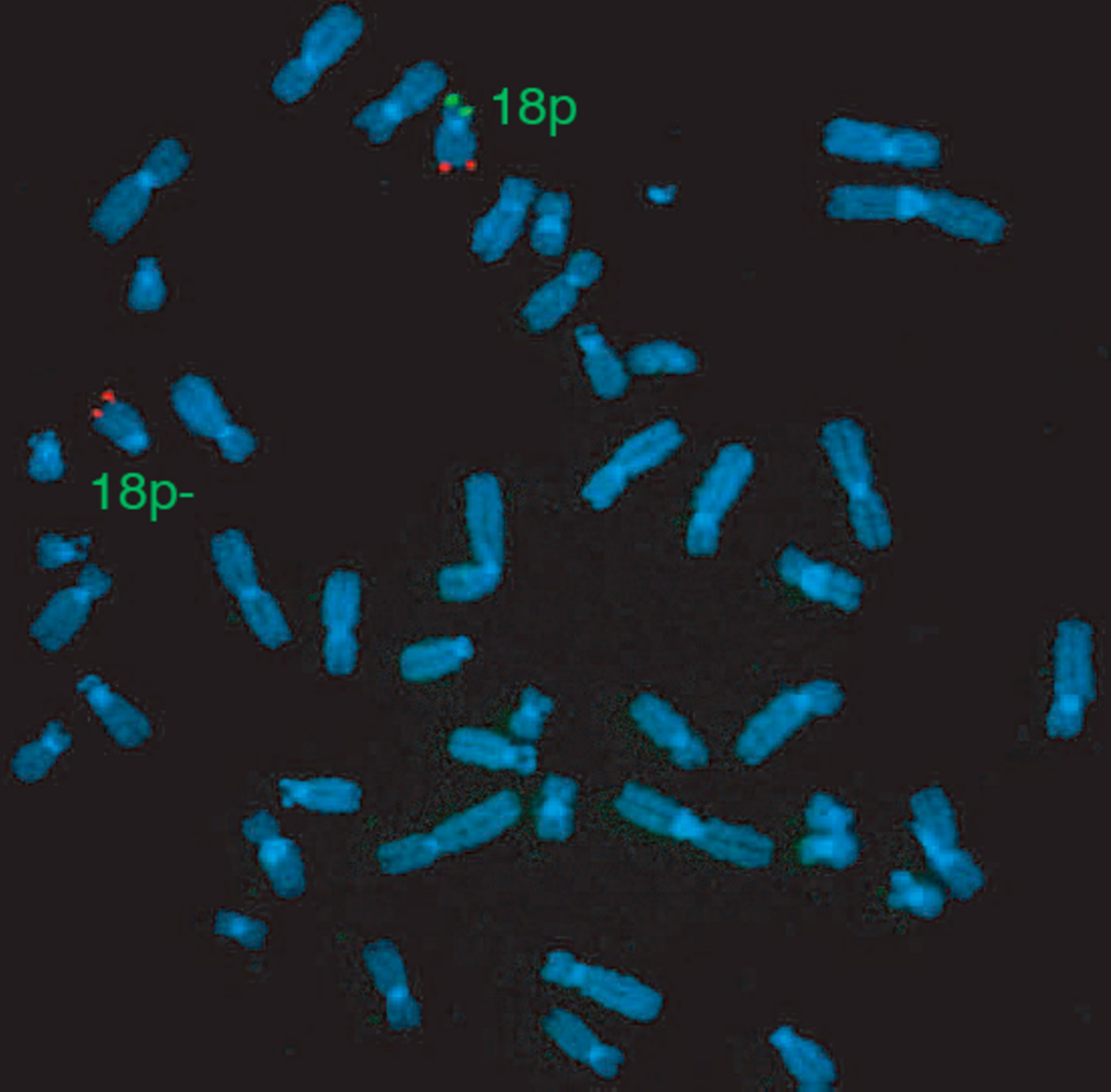 In situ hybridization. 18p (green) and 18q (red) with subtelomeric probes showing 18p deletion in the patient with De Grouchy syndrome type I (deletion 18p)